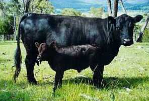 This photo was taken by my neighbours, Sue and Daryl Crawford. It is a photo of their own cattle. The photo is used on their web site but is freely contributed to Wikipedia.